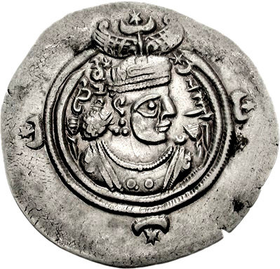 Coin of Khosrau III, a Sasanian rival king.